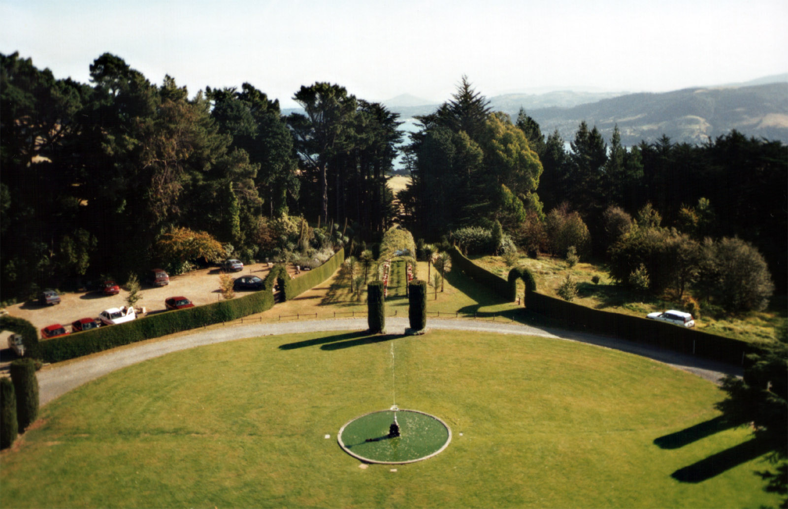 This is the view to the west from the top of Larnach Castle, in Dunedin, New Zealand.